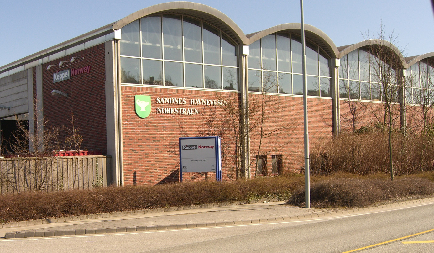 Sandnes Havn office in Strandgata